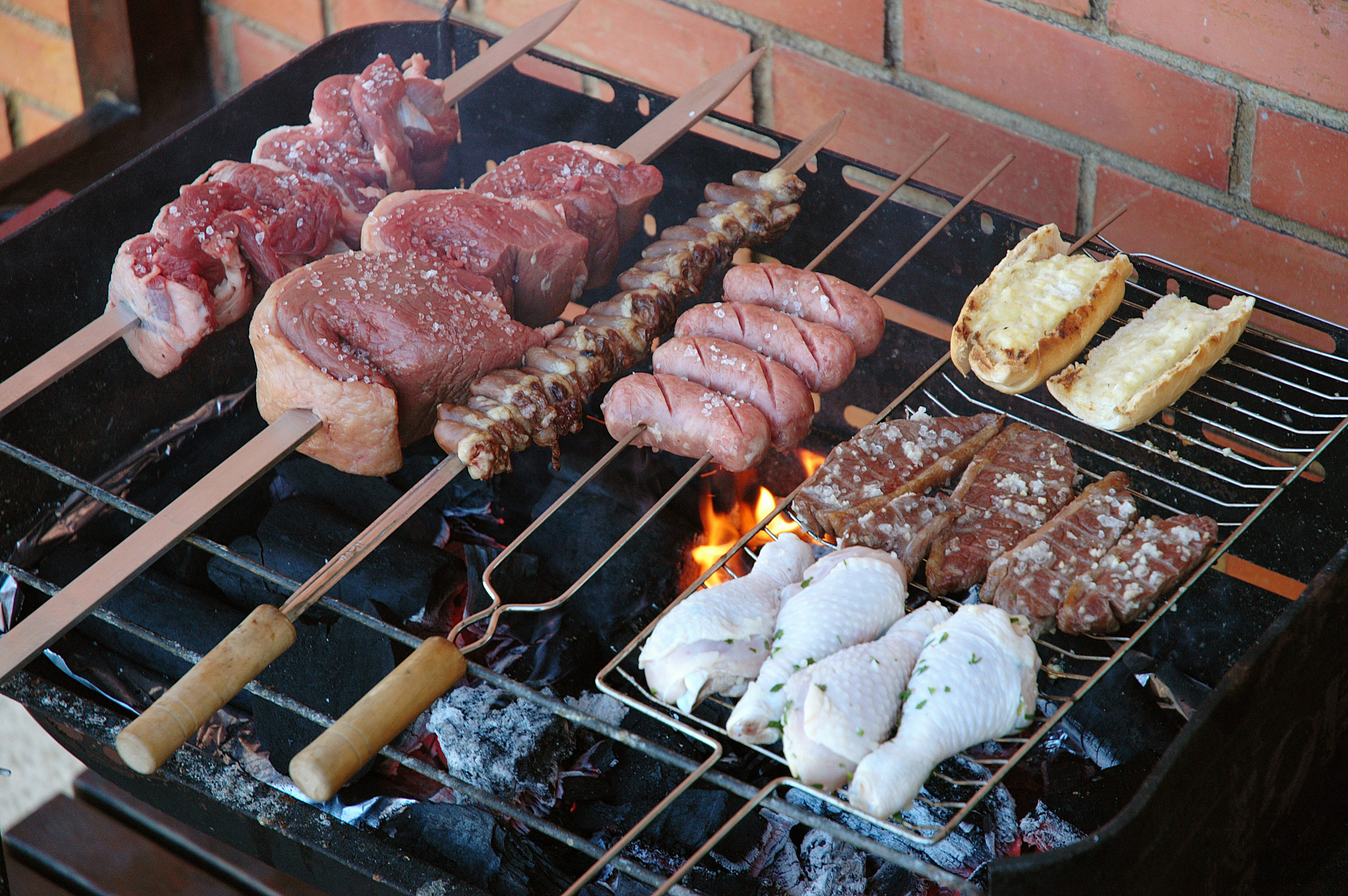 Photo of a Churrasco (brazilian barbecue), as prepared by cariocas. Left to right and down are Fraldinha, Picanha, Coração (chicken heart), lingüiça (sausages), garlic bread, sliced picanha with garlic and chicken legs.